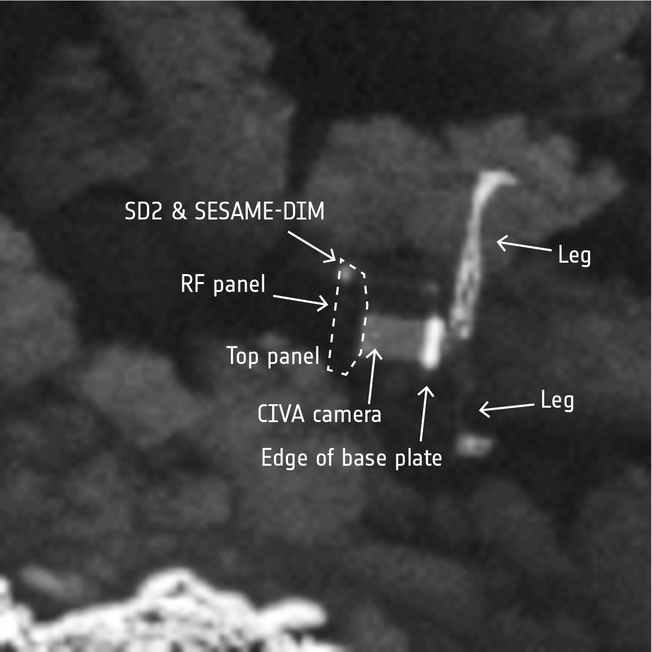 A number of Philae’s features can be made out in this image taken by Rosetta’s OSIRIS narrow-angle camera image on 2 September 2016. The images were taken from a distance of 2.7 km, and have a scale of about 5 cm/pixel. Philae’s 1 m wide body and two of its three legs can be seen extended from the body. Several of the lander’s instruments are also identified, including one of the CIVA panoramic imaging cameras, the SD2 drill and SESAME-DIM (Surface Electric Sounding and Acoustic Monitoring Experiment Dust Impact Monitor).